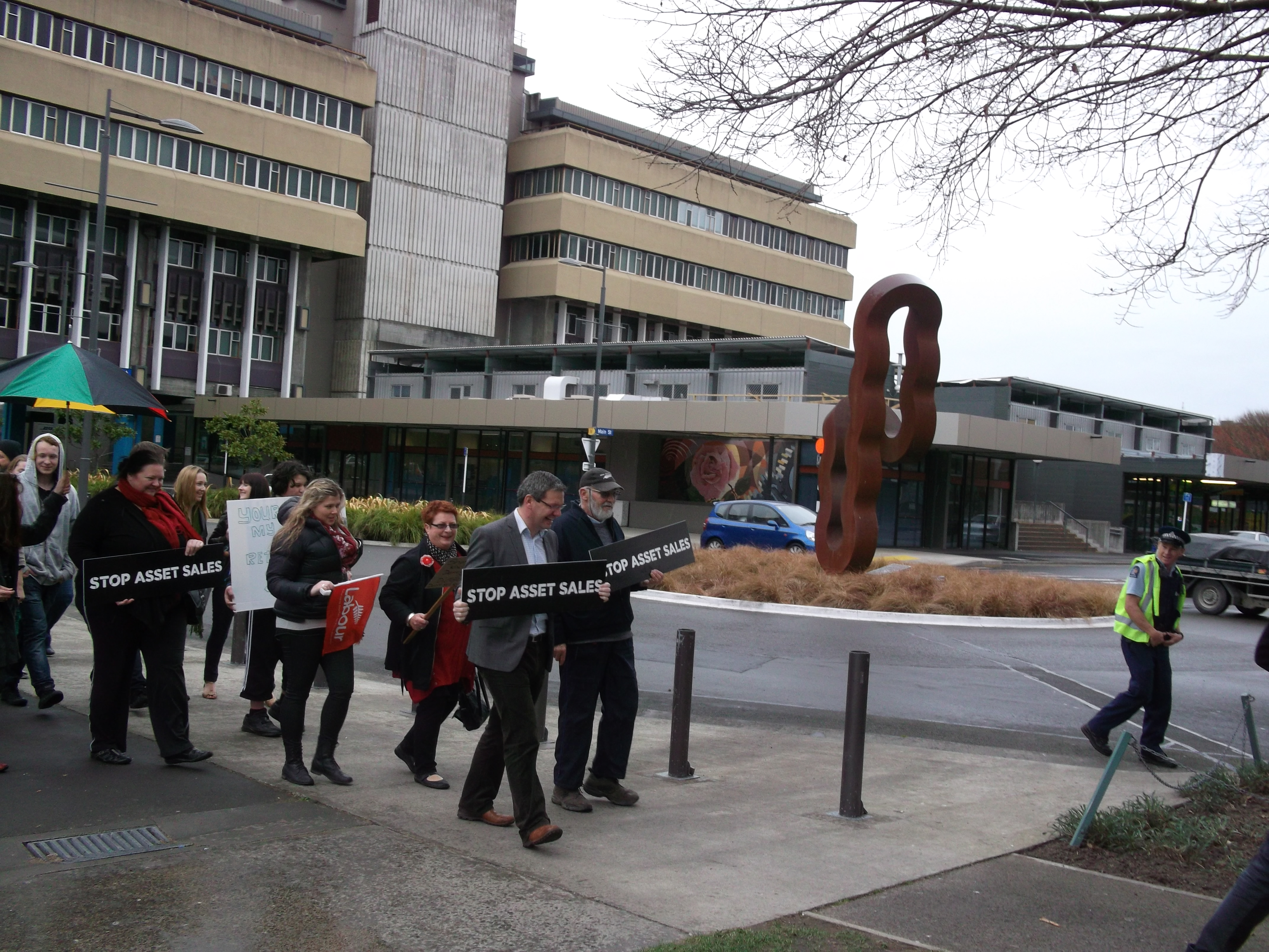 Photo taken at a rally against state-owned enterprise privatisation, held in Palmerston North, New Zealand on 14 July 2012. The rally was part of nationwide protests against the privatisation plans. In this photograph, MP Iain Lees-Galloway leads a march around the Palmerston North Square. The Central Administration Building of the Palmerston North City Council is visible in the background.